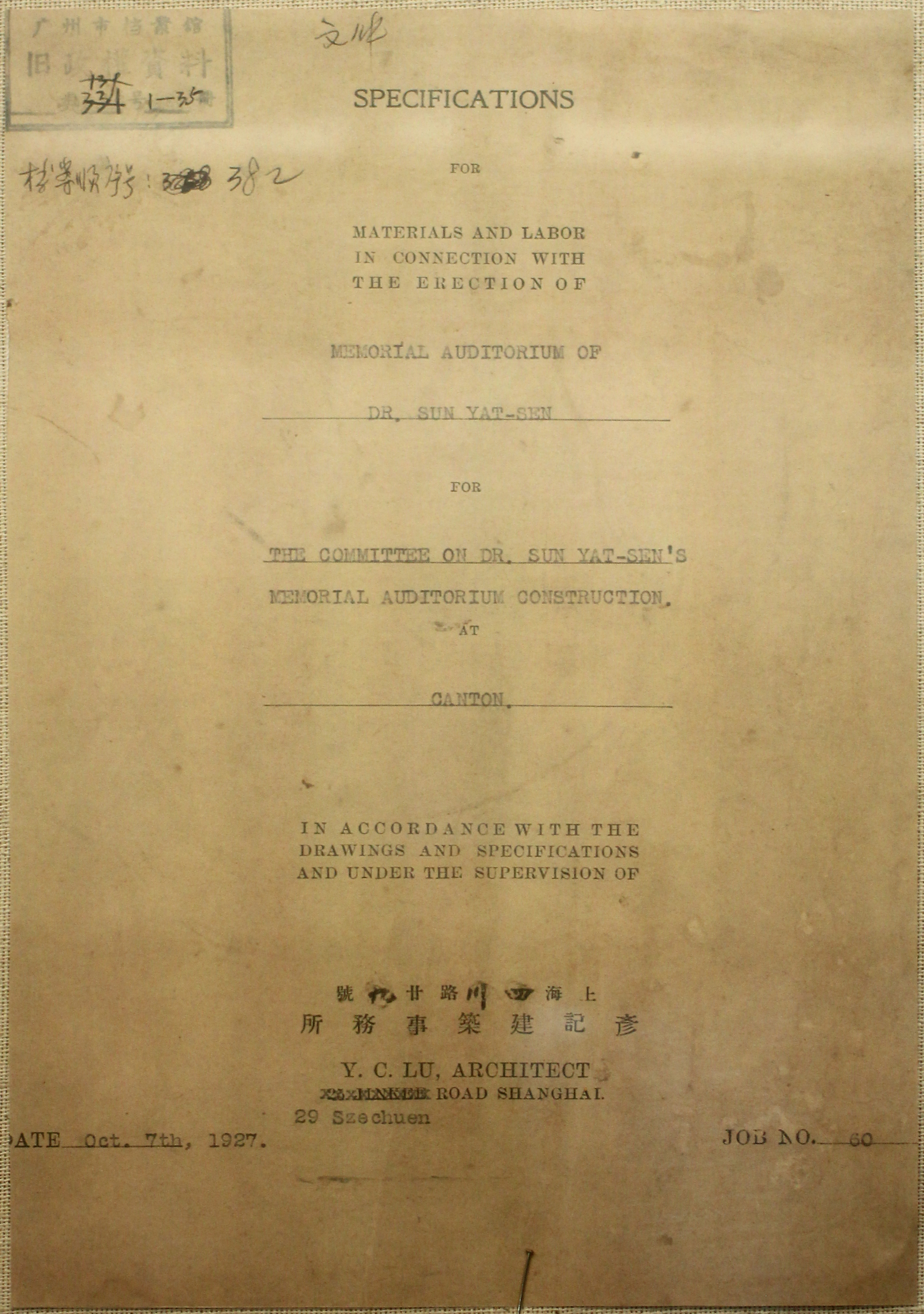 Memorial Auditorium of Dr. Sun Yat-sen